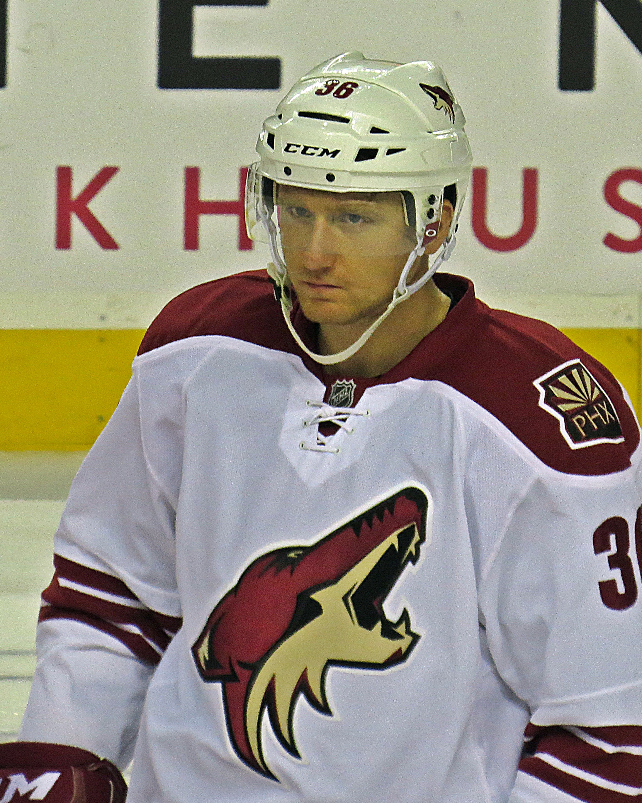 Klinkhammer with the Coyotes in the 2013-14 season.